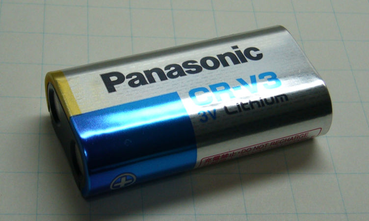 This photograph is a battery lithium CR-V3.